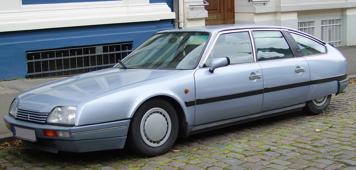 A Citroën CX